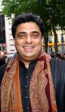 Ronnie Screwvala at the Life in a... Metro premiere in London's Empire Leicester Square